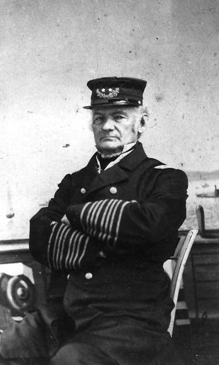 Rear Admiral Hiram Paulding, USN, (1797-1878). Photographed circa 1864-1865, while he was Commandant of the New York Navy Yard.